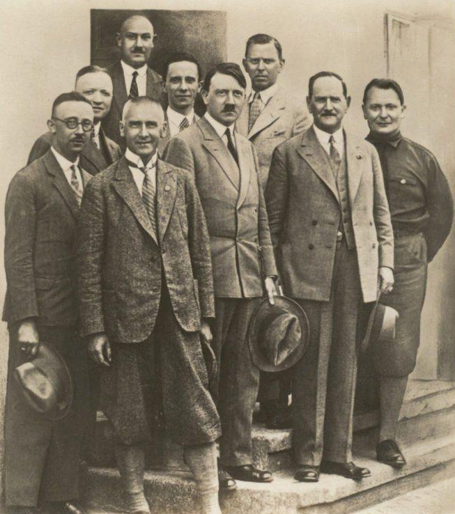 From left to right, Heinrich Himmler, Martin Mutschmann, Wilhelm Frick, Joseph Goebbels, Adolf Hitler, Julius Schaub, Franz von Epp, Hermann Göring.